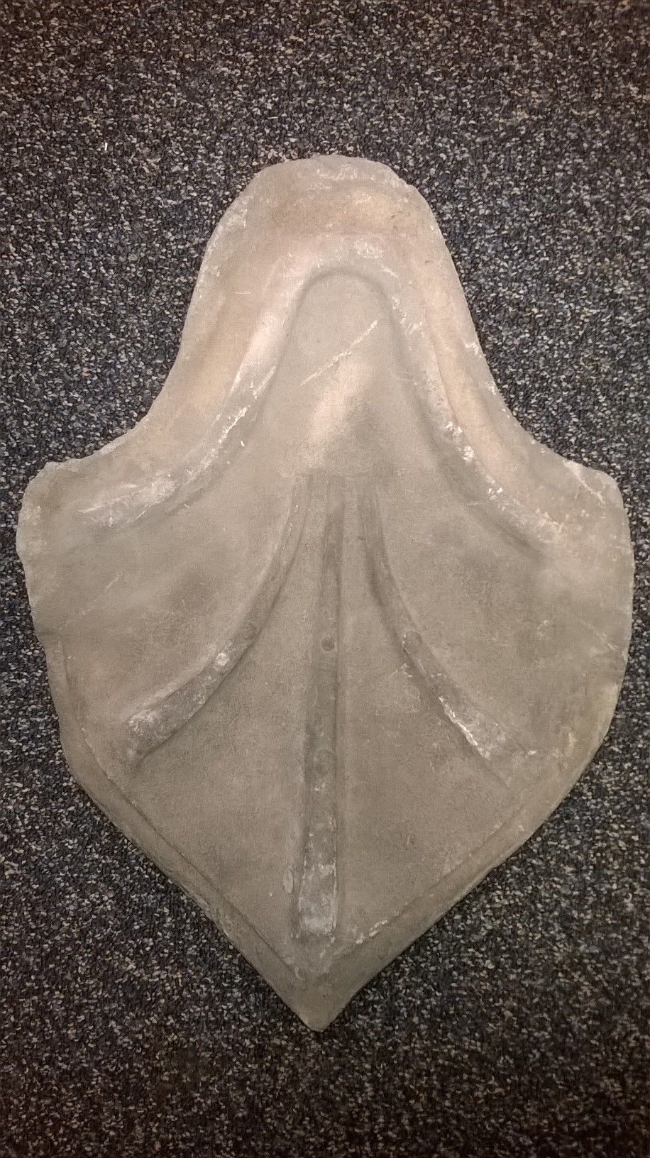 Oegstgeester roof tile seen from the topside. Roof tile is in the City Hall of Hoorn.